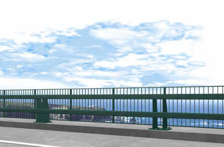 Artists's rendering of California Department of Transportation ST-10 scenic bridge railing as it would appear to motorists on the Noyo River Bridge in Fort Bragg, California (United States)